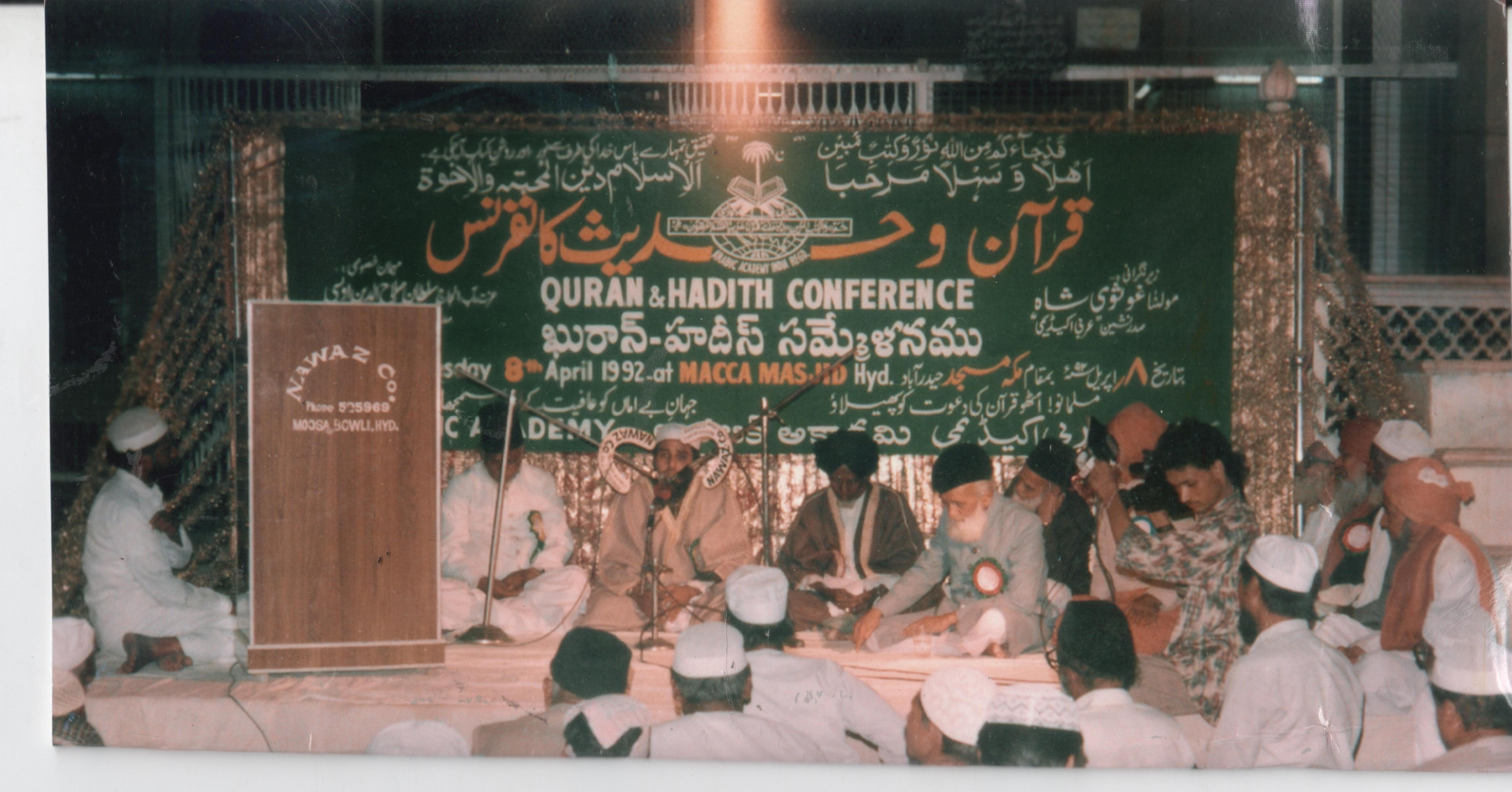 Quran and Hadith Conference organized by Moulana Ghousavi Shah(President: All India Muslim Conference)